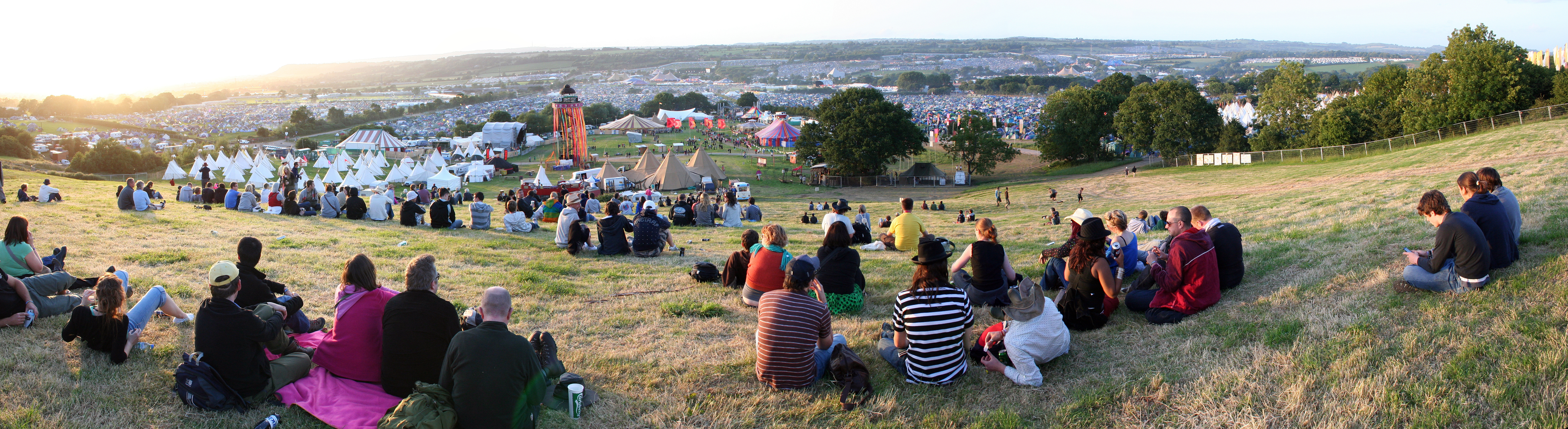 View over the Glastonbury Festival, taken on Wednesday 24th June 2009